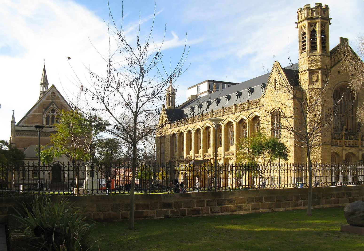 Bonython Hall & the Conservatorium of Music, University of Adelaide, North Terrace, Winter 2008.